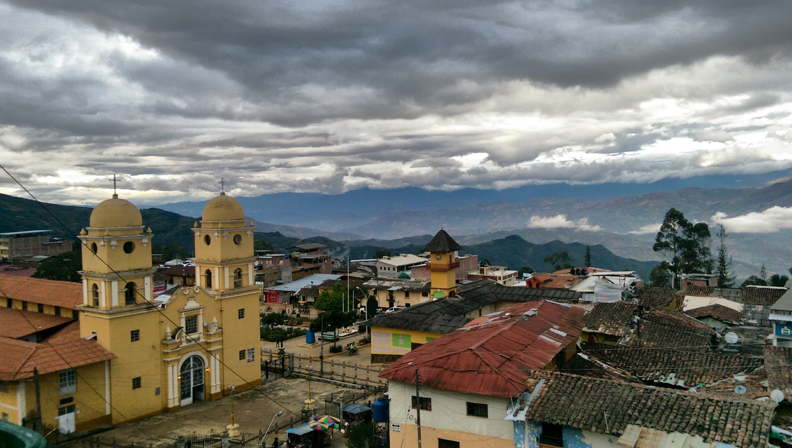 A view on the church and main place (Plaza de La Paz) of the town of Ayabaca in the Department of Piura in Peru.